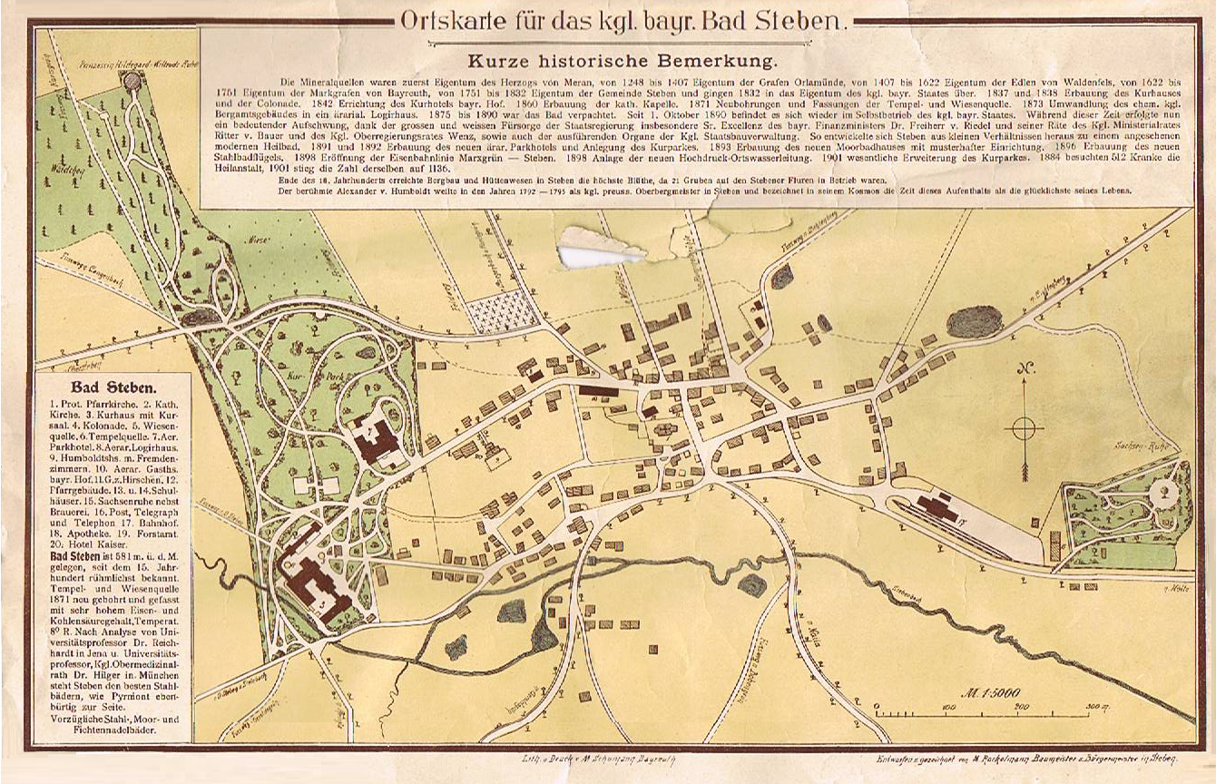 Historical map of the royal bavarian Bad Steben, Map draw from Martin Rockelmann, mayor ans master-builder of Steben